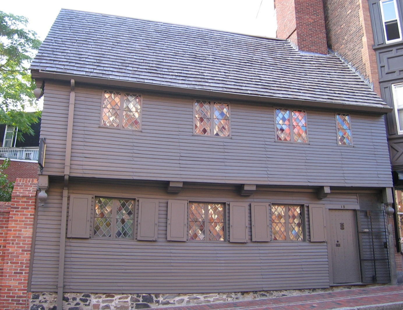 Paul Revere's House in Boston, Massachusetts, USA.